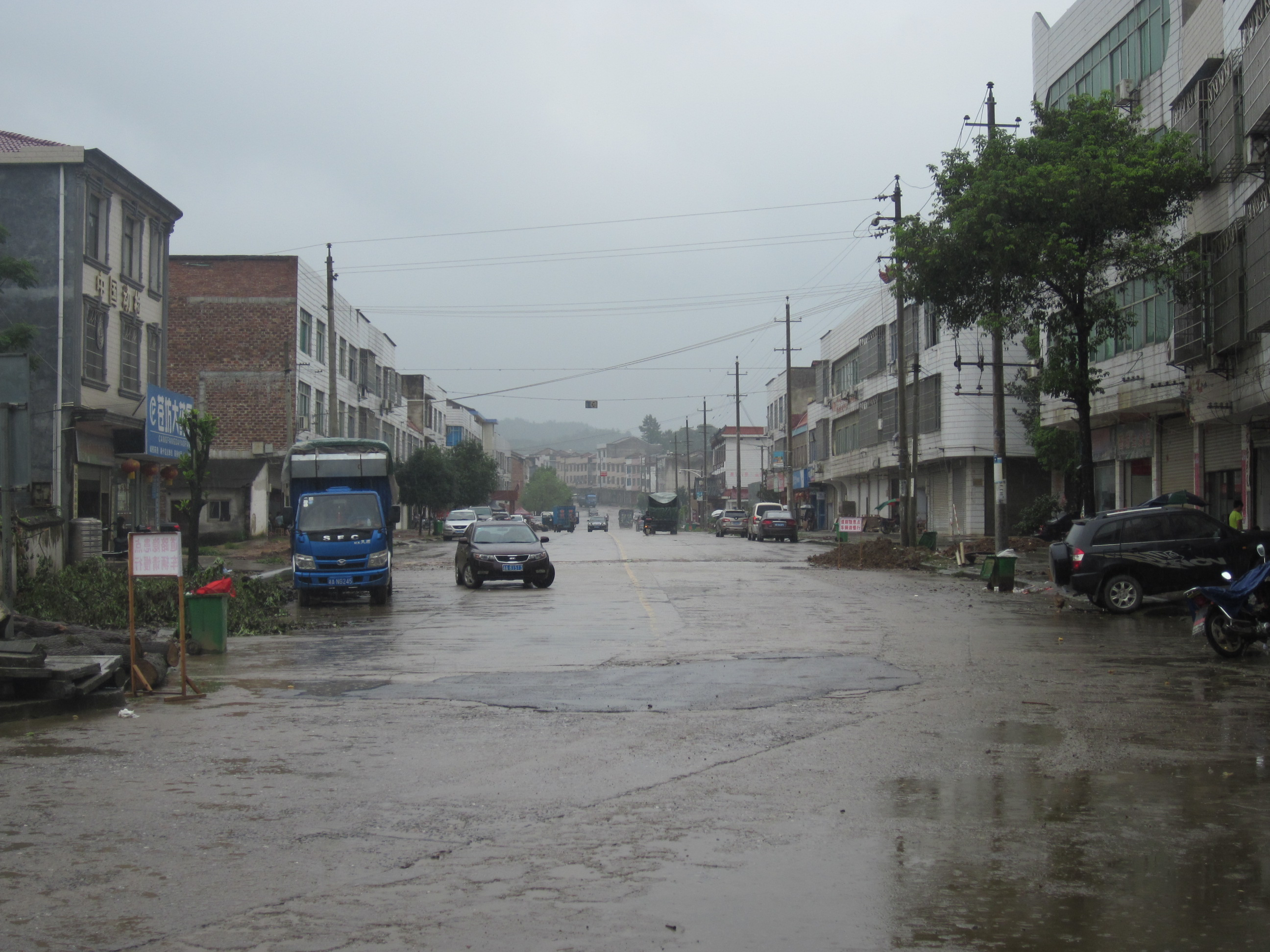 Residential buildings on both sides of the street in Zhonghe Town. Zhonghe (simplified